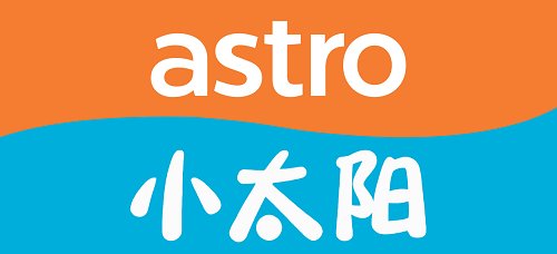 Channel logo of Astro Xiao Tai Yang